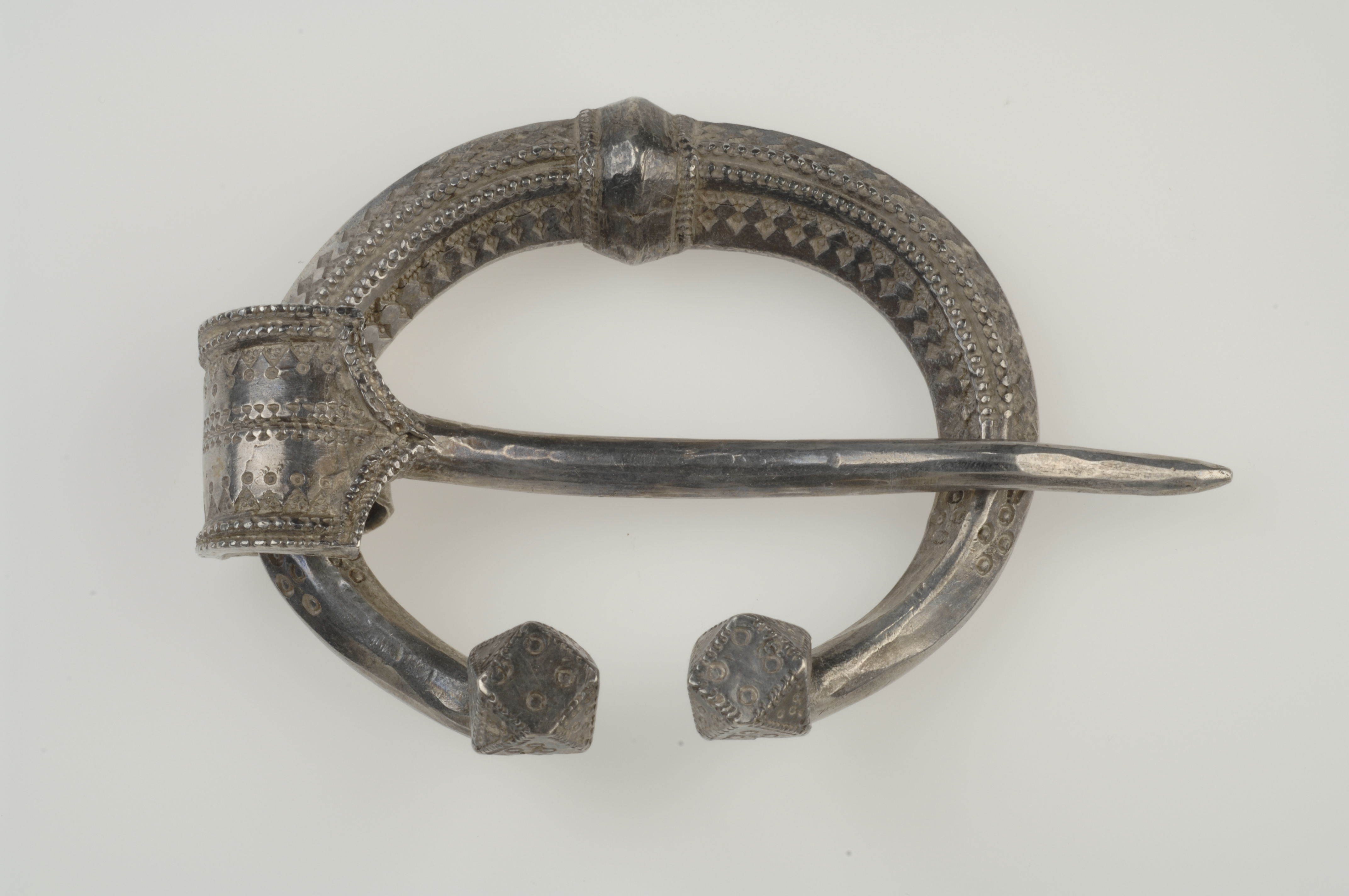 Penannular brooch. Silver. The brooch is decorated with punctuated triangles, very characteristic for the time. The end knobs are octagonal in the same style as Arabic weights. Lilla Klintegårda, Väskinde, Gotland, Sweden. SHM 5804 See also